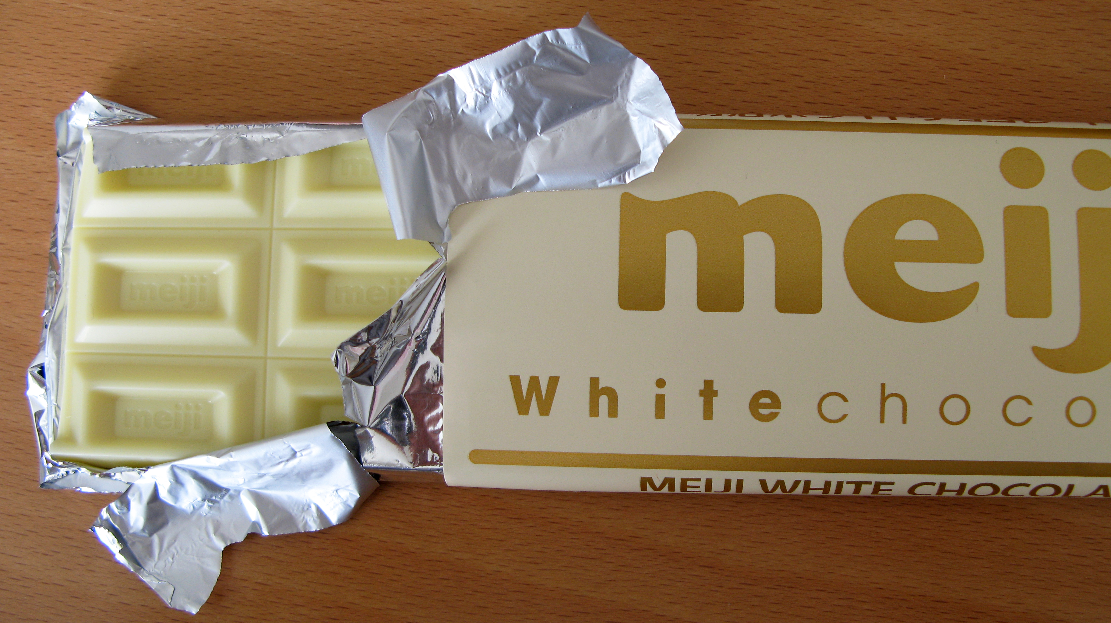 Meiji's white chocolate.